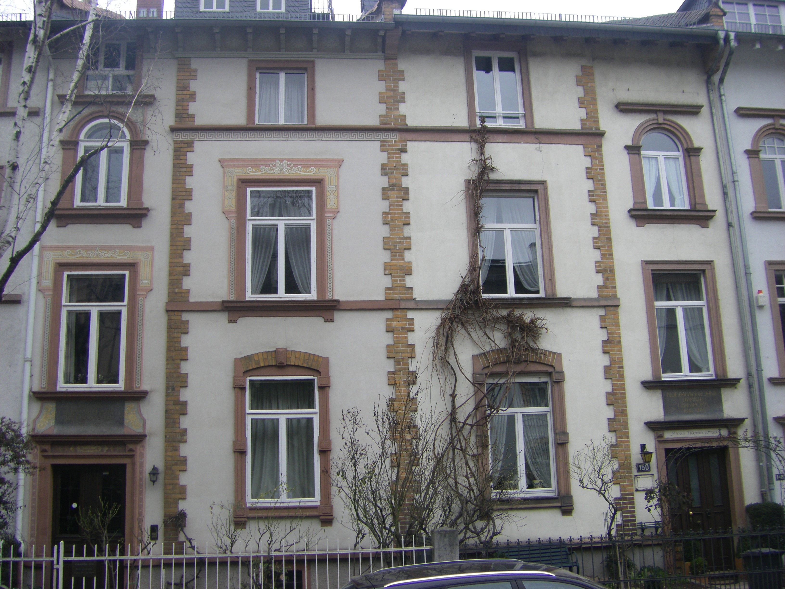 Wolfsgangstr. 152 (left) and 150 (right) in Frankfurt am Main. This building was home of the painters Wilhelm Steinhausen and Hans Thoma.